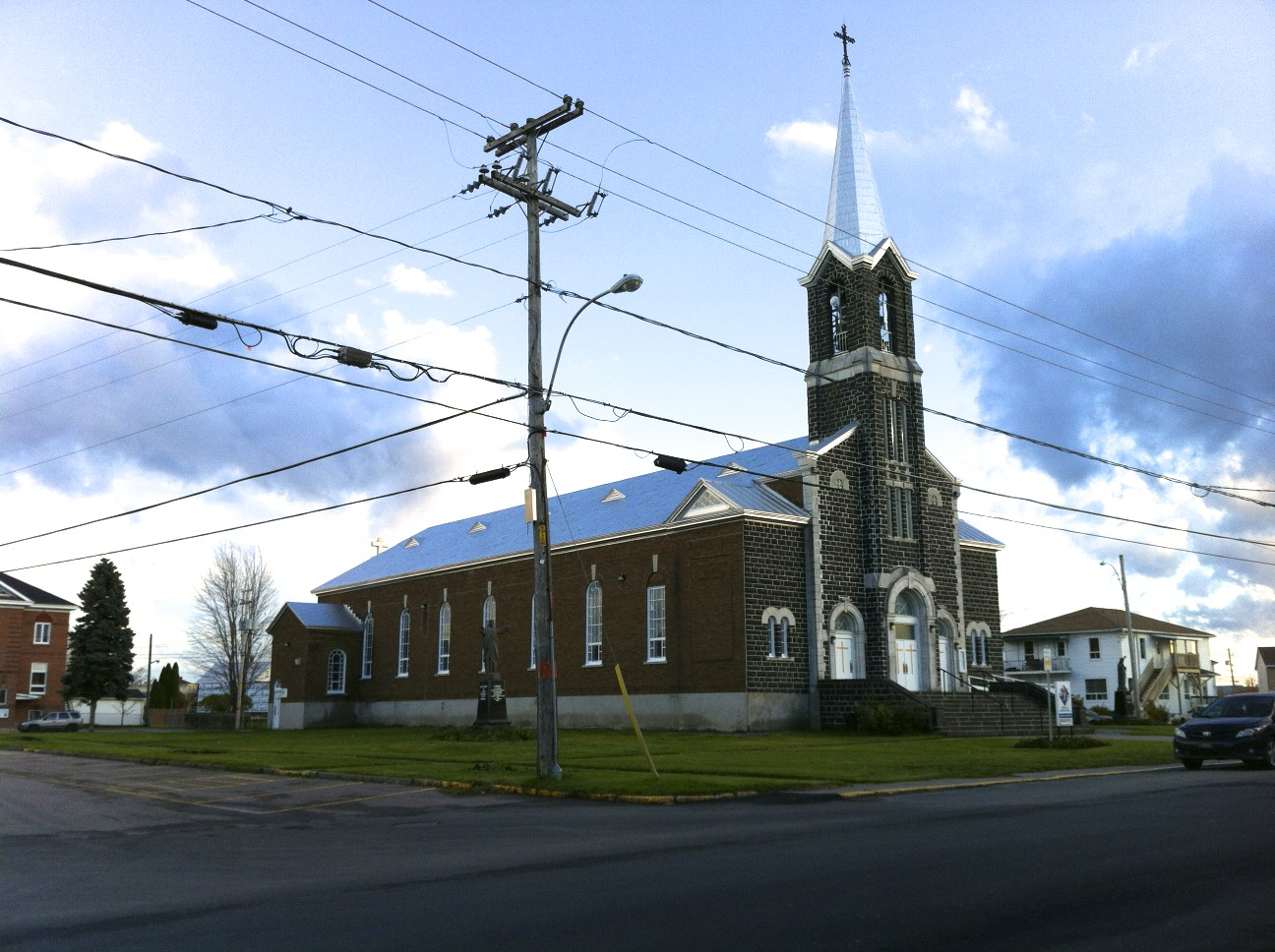 St. Wilbrod's Church, Hébertville-Station, Quebec